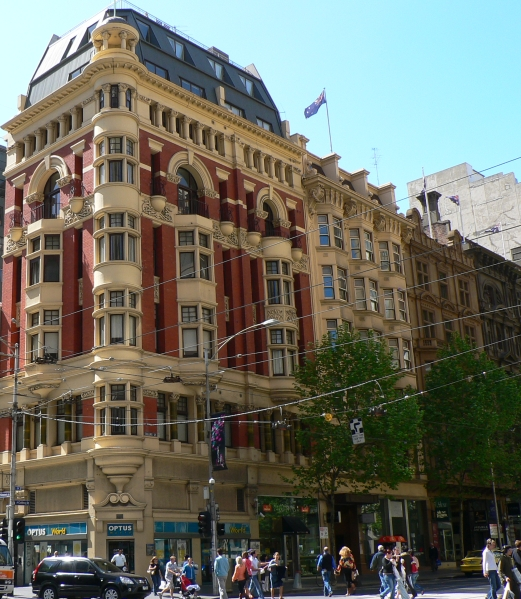 "Alston's Corner". Corner of Collins and Elizabeth Streets. Melbourne